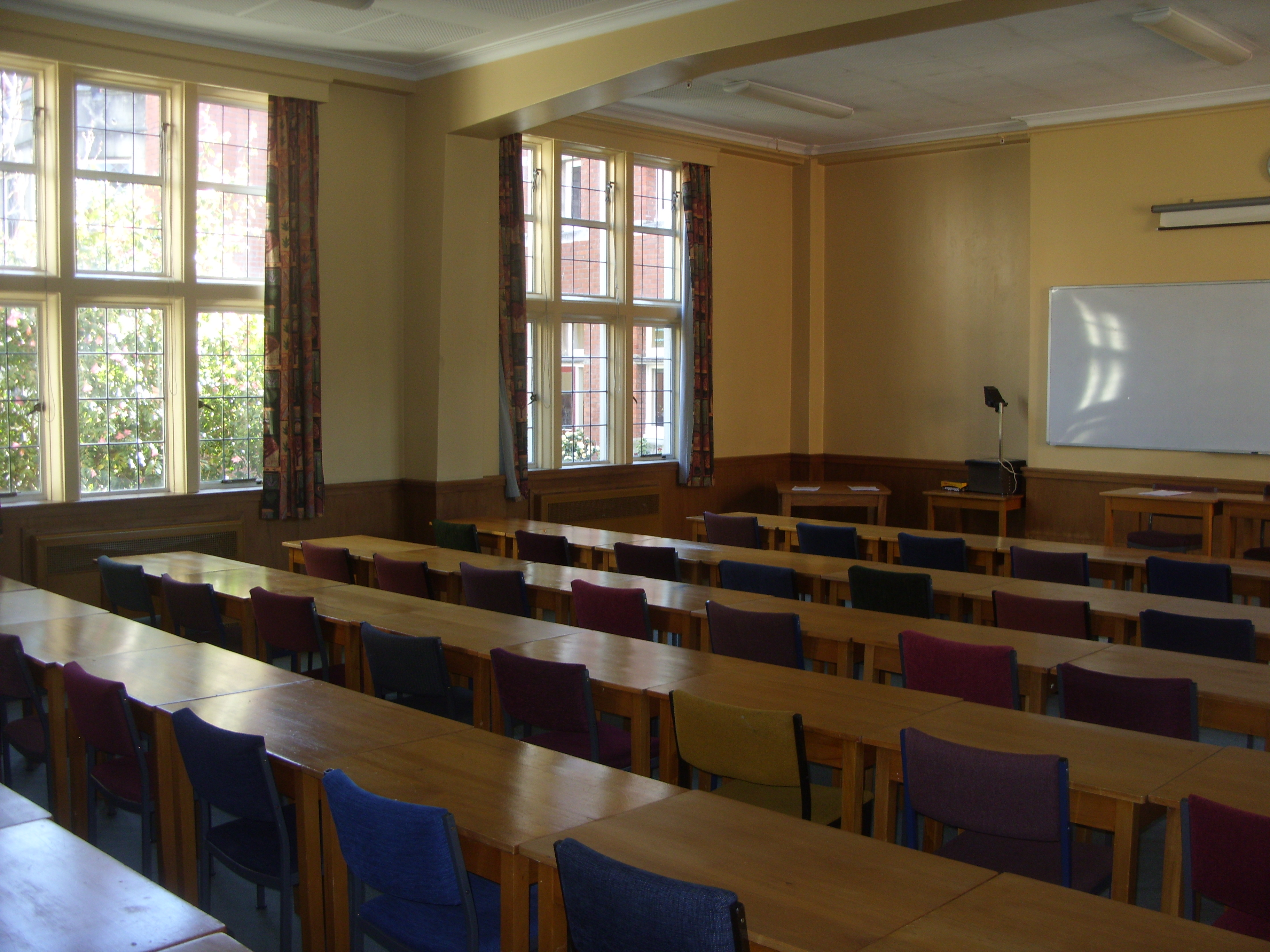 Main dedicated teaching room in Knox College